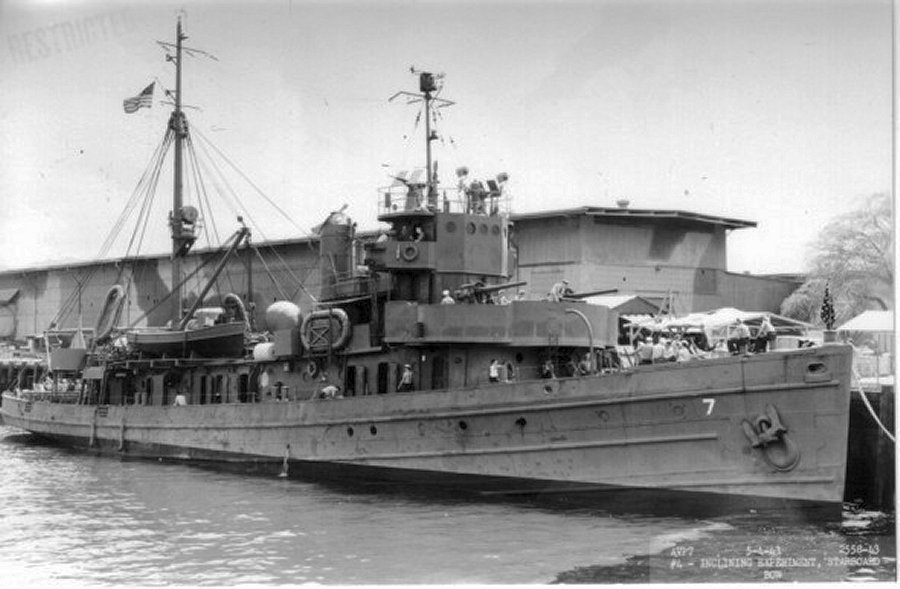 4 May 1943 Mare Island, CA Starboard bow view during inclining experiment U.S. Navy photo 2558-43.